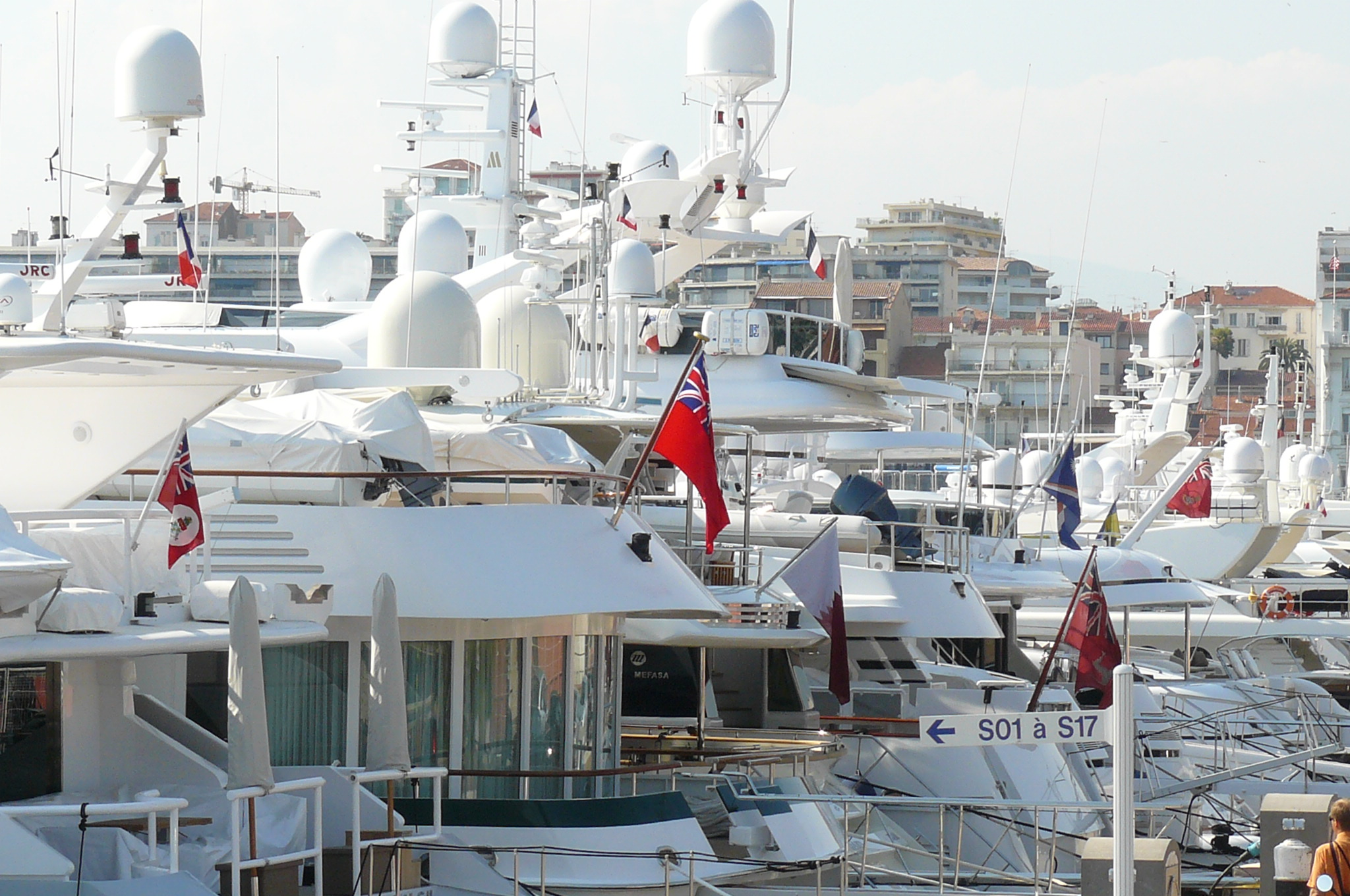 Old Harbor in Cannes